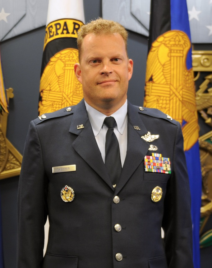 Promotion of Air Force Brig. Gen. Jeffrey Cashman, hosted by Army Gen. Frank Grass, chief, National Guard Bureau, at the Hall of Heroes, the Pentagon, Washington, D.C., June 26, 2015. (U.S. Army National Guard photo by Sgt. 1st Class Jim Greenhill) (Released)